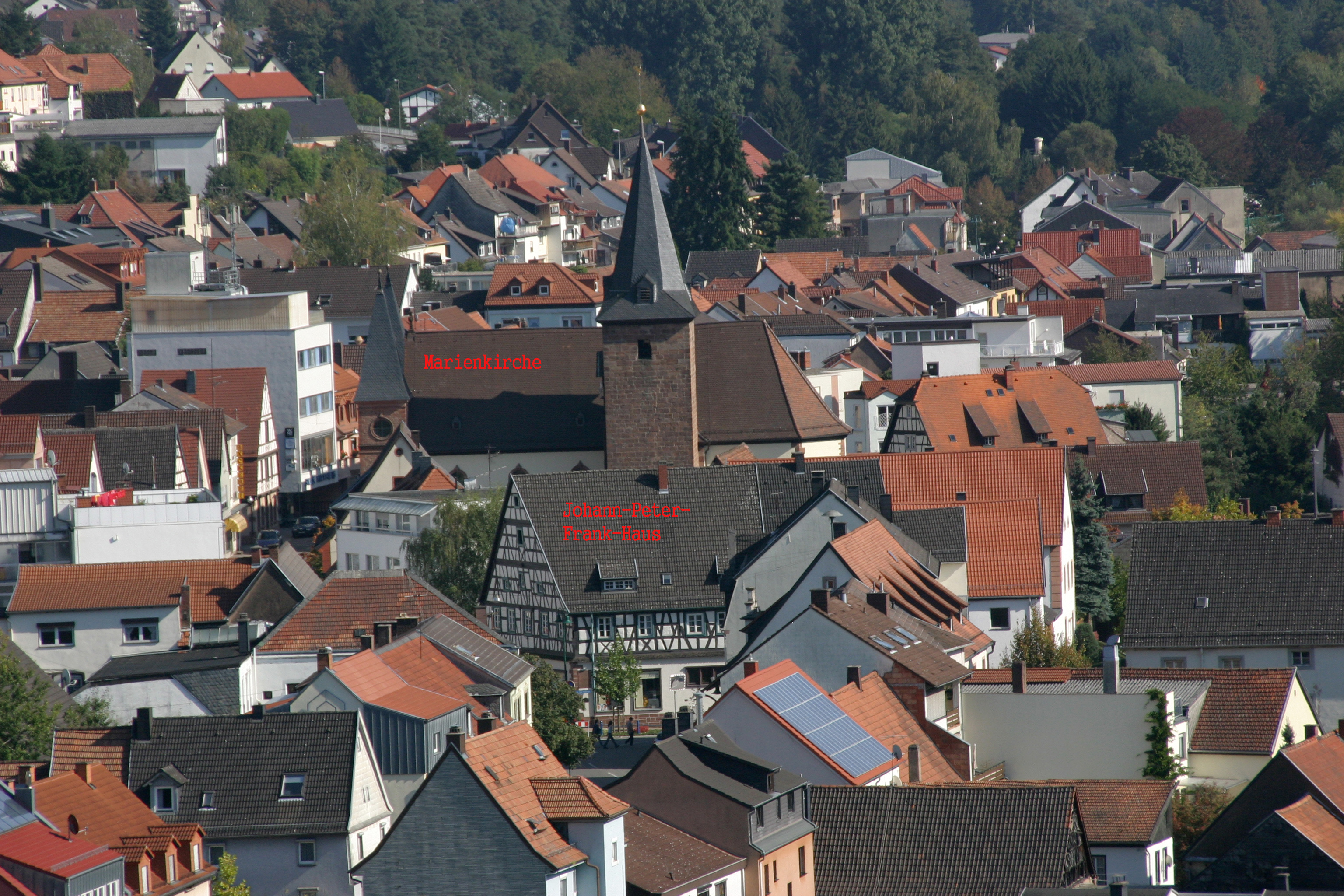 St. Mary's Church and birthplace of Dr. Johann Peter Frank in Rodalben, Rhineland-Palatinate, Germany